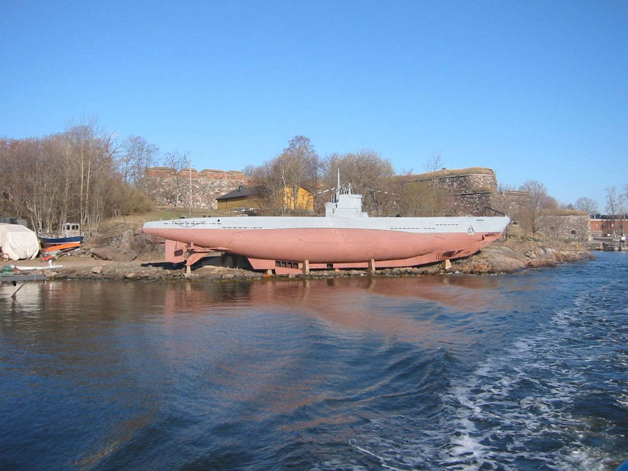 photograph of Finnish submarine Vesikko Usable with attribution and link to